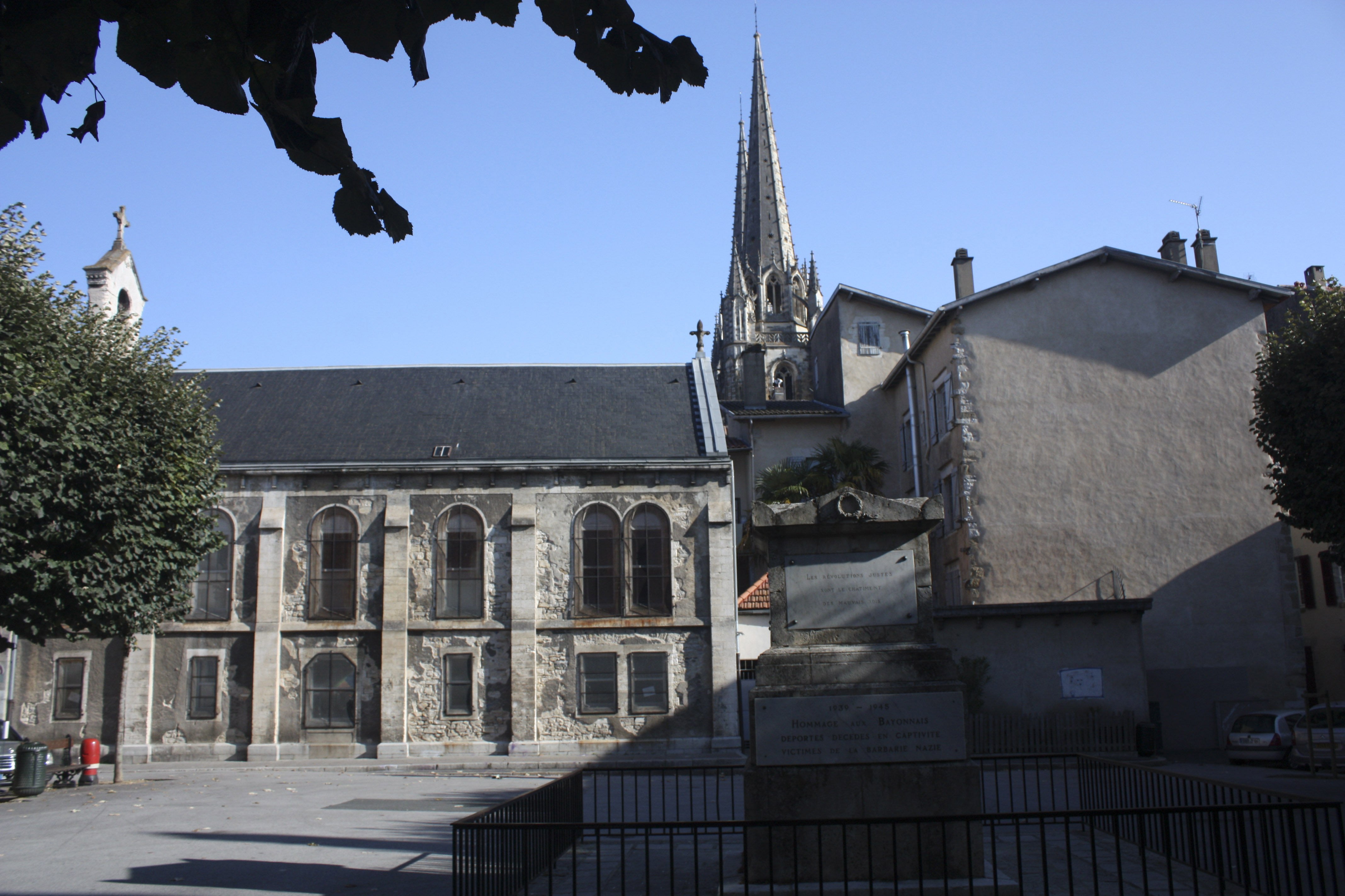 Moved to Place Montaut, the monument commemorating the Three Glorious: "Revolutions are just punishment of evil kings". On Back, the chapel of the Daughters of the Cross.